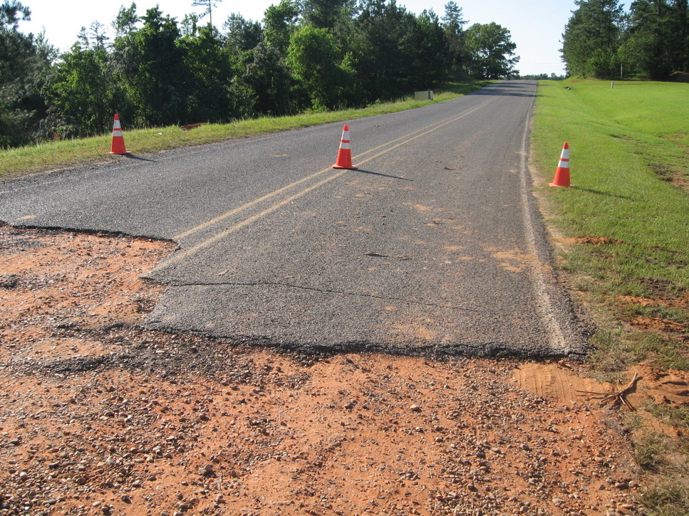 NWS surveyors from Jackson, Mississippi survey extreme tornado damage from the April 27, 2011 Philadpelphia, Mississippi tornado.